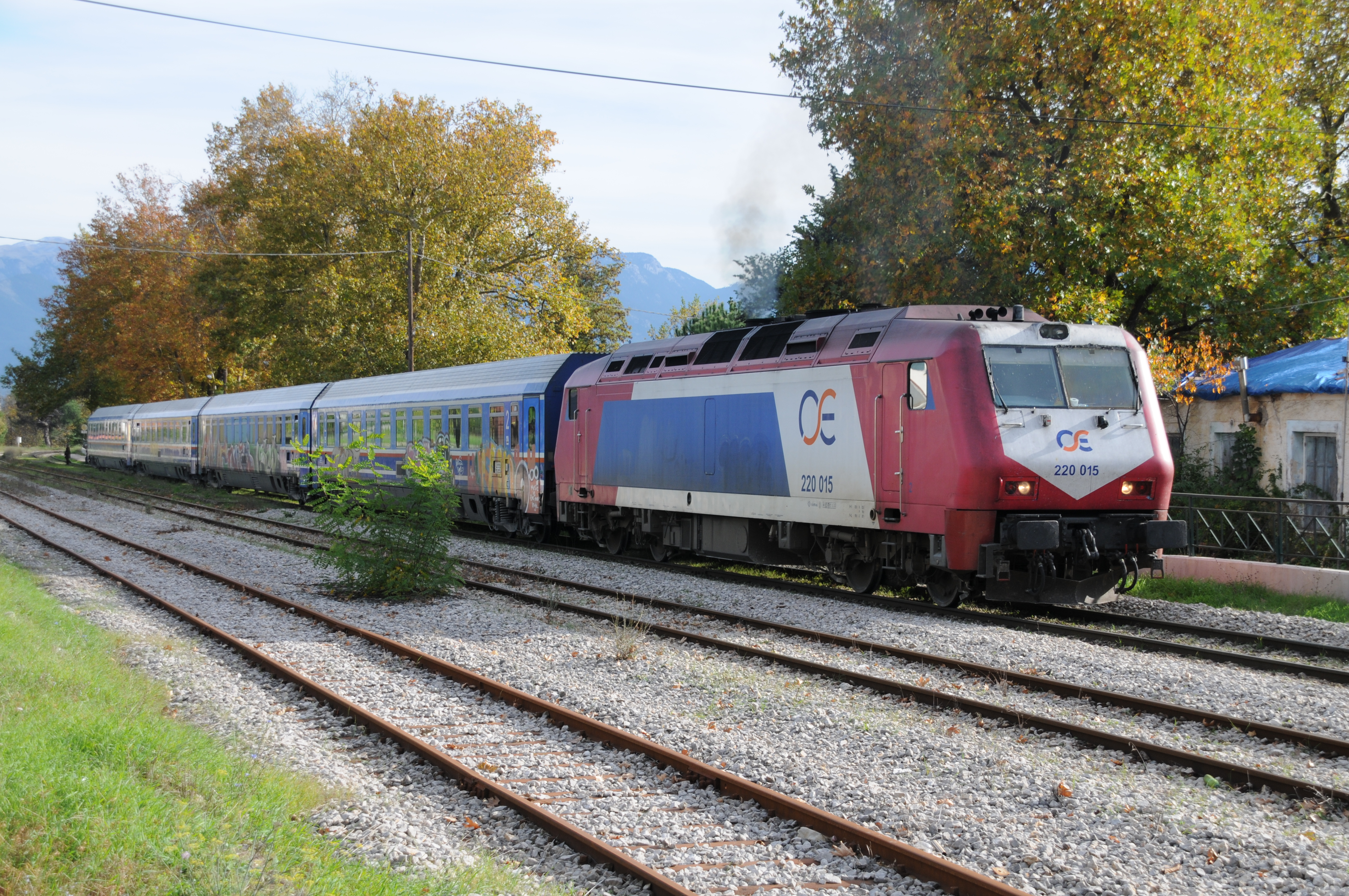 Greek railways ADtranz class 220 loco on head of an IC train is passing from Bralos station